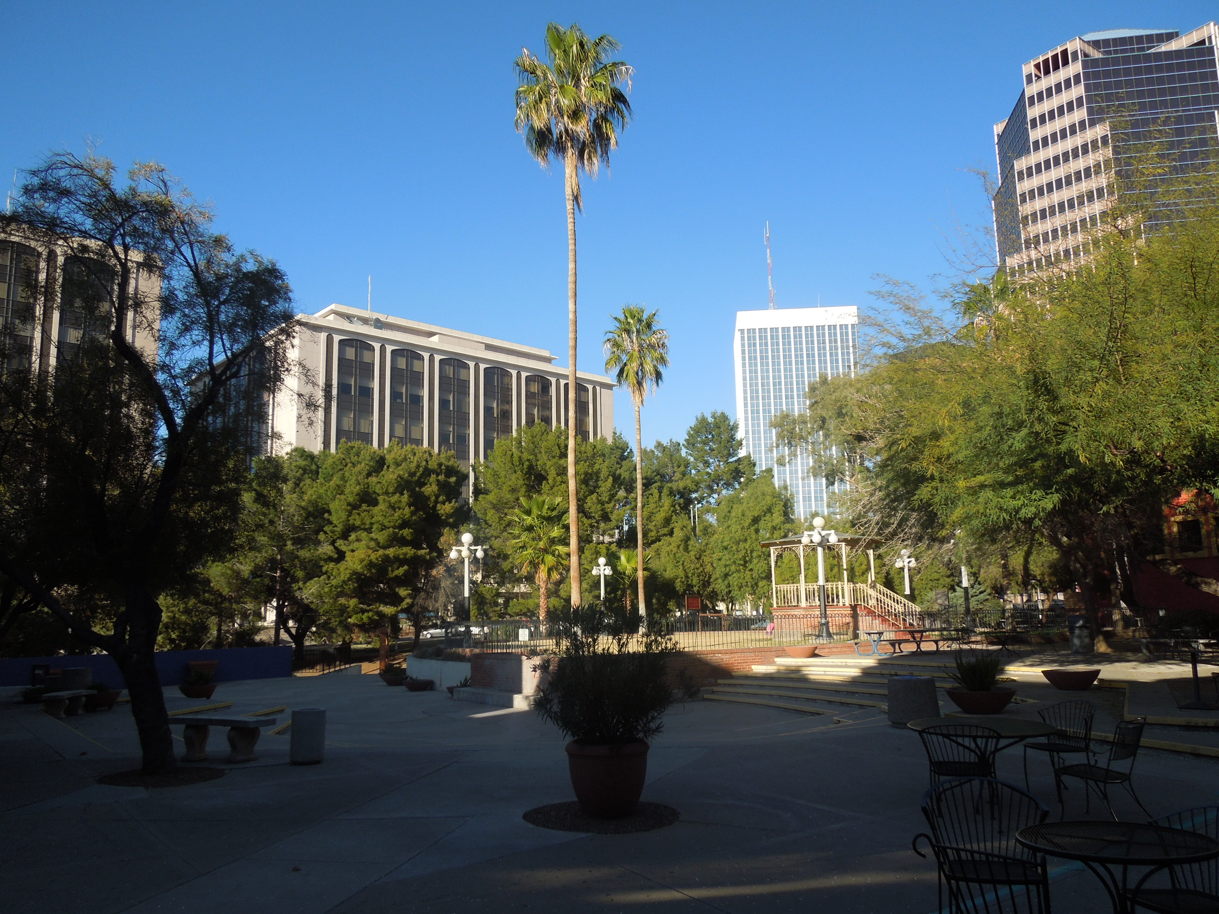 Downtown Tucson, Arizona